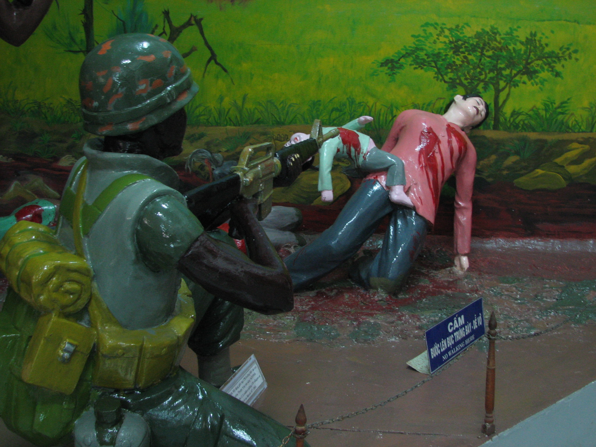 Display at the My Lai Memorial